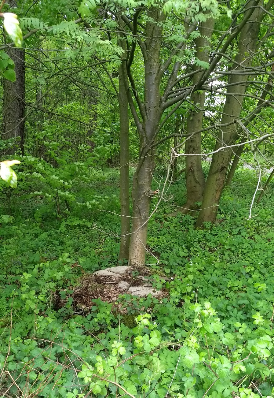 Zebrzydowice (Wymysłów)-Karvina (Mizerov) border crossing